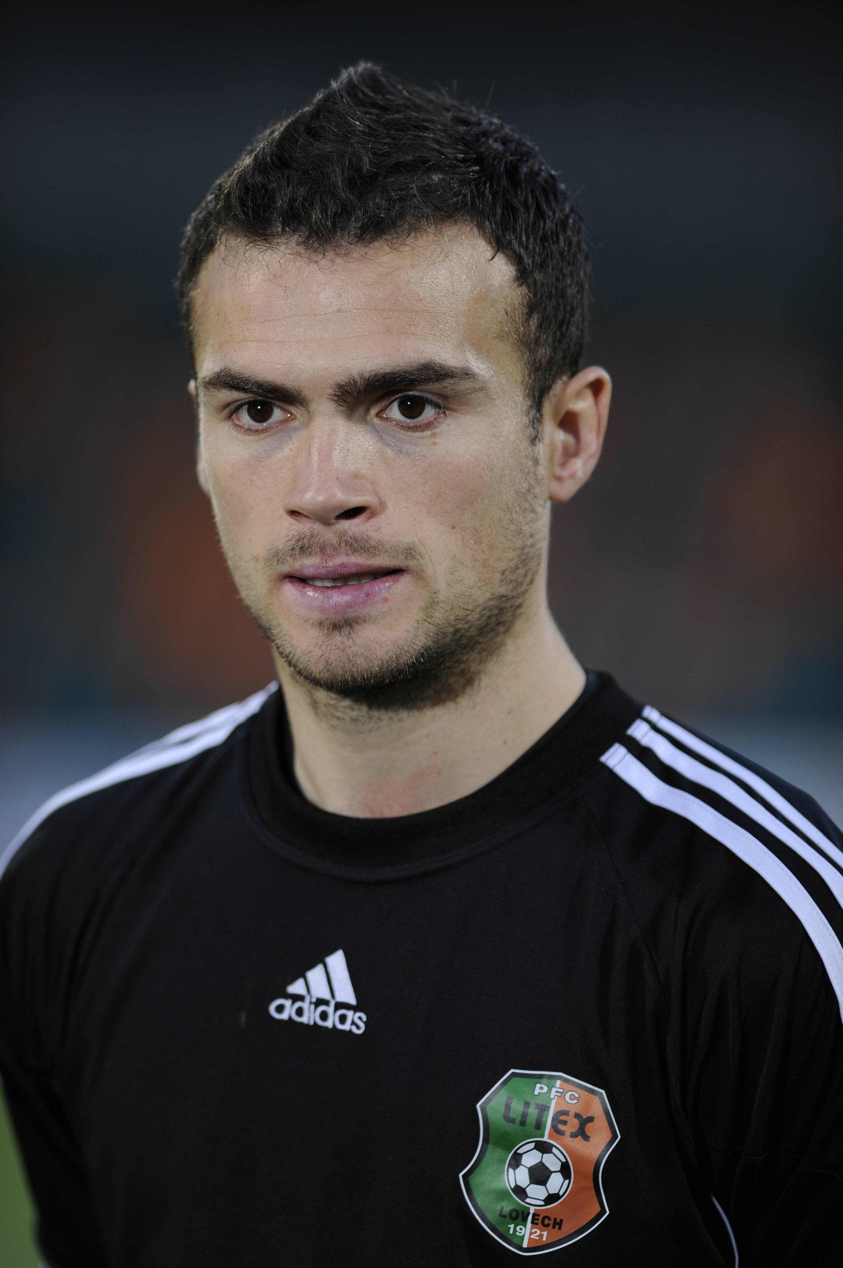 Ilko Pirgov